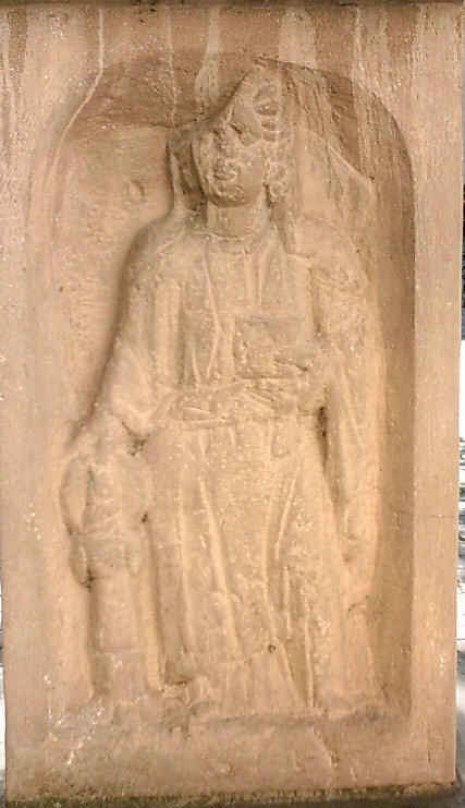 Juno on a stone of four gods